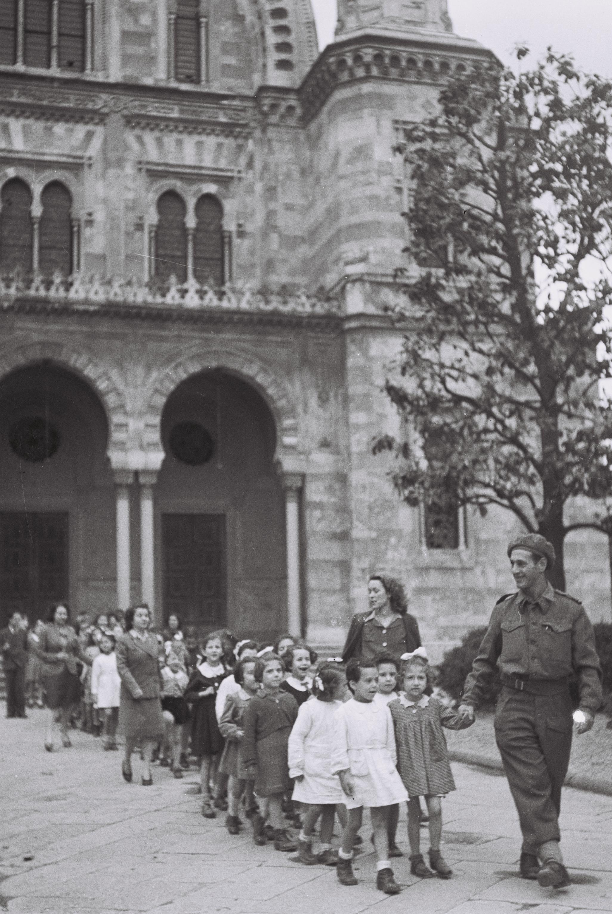 A JEWISH BRIGADE SOLDIER & NURSES OF THE JEWISH AGENCY TAKING CARE OF JEWISH REFUGEE CHILDREN IN FLORENCE, ITALY. פירנצה, איטליה. בצילום, חייל הבריגדה היהודית ואחיות של הסוכנות היהודית מטפלים בילדים, פליטי מלחמה יהודים מרחבי אירופה.